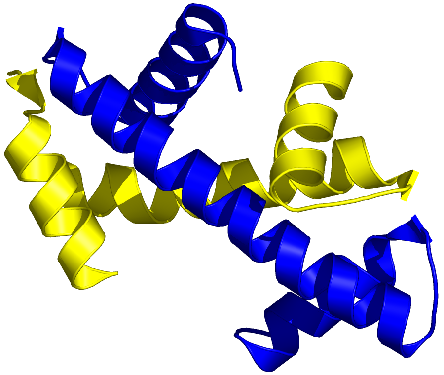 Histone-fold domains of chick histones H3 (blue) and H4 (yellow), as they appear in the nucleosome core particle.